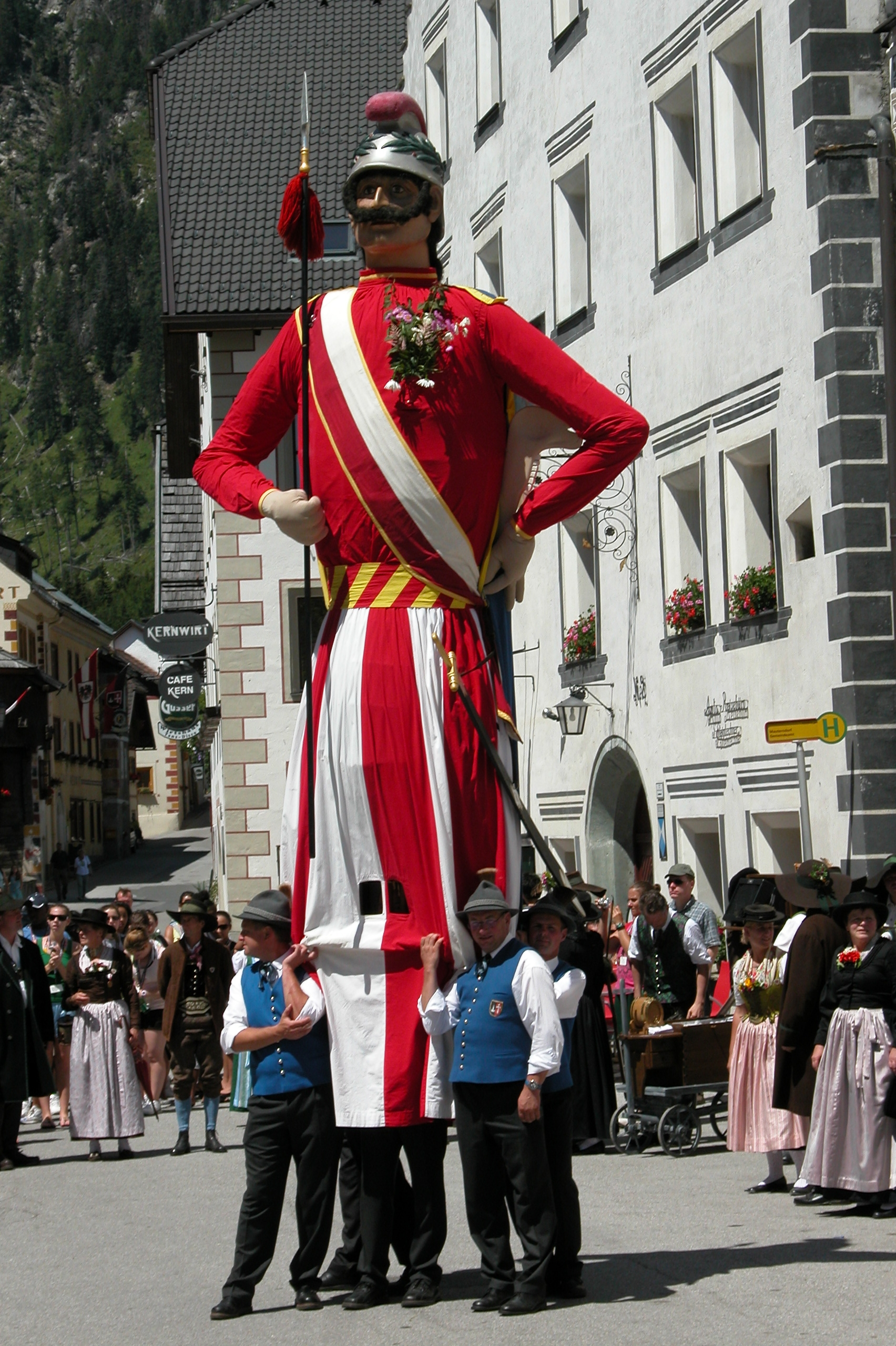 Giant Samson from Mauterndorf